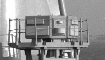 Cropped view of AN/SLQ-32 antenna on Donald B. Beary. Original caption:A view of the mack structure and surrounding area on the frigate USS DONALD B. BEARY (FF-1085). Location: HAMPTON ROADS, VIRGINIA (VA) UNITED STATES OF AMERICA (USA)